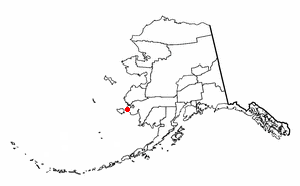 Adapted from Wikipedia's AK borough maps by Seth Ilys.